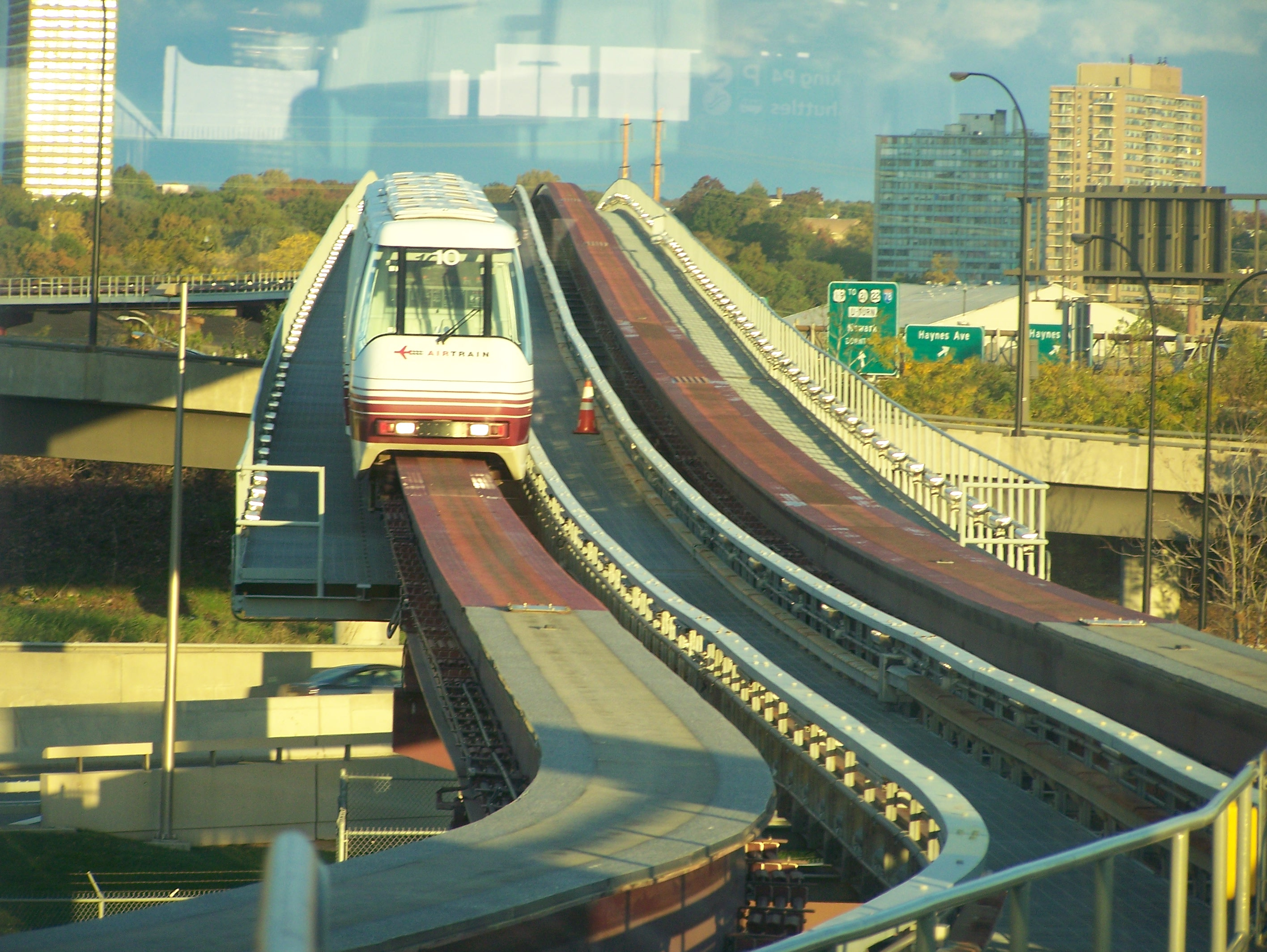 AirTrain Newark